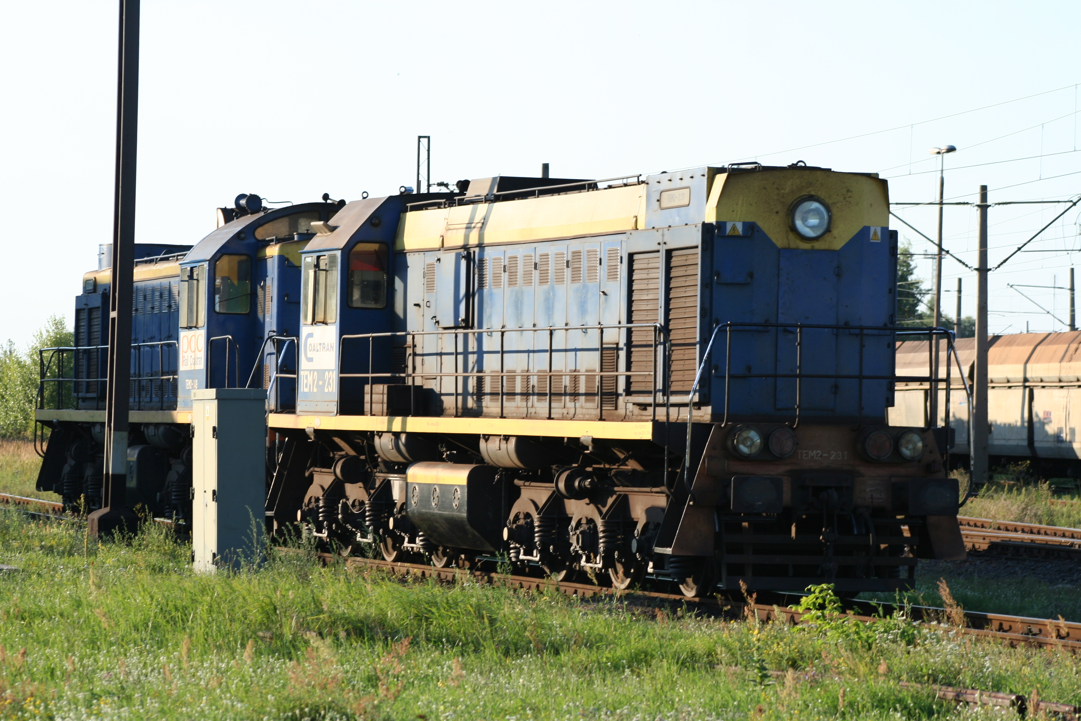 Shunter diesel locomotive TEM2-231.